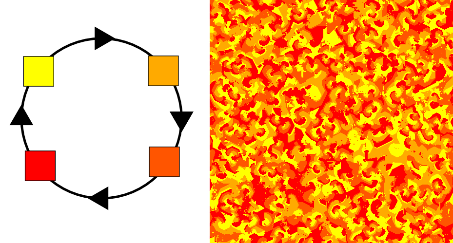 Griffeath's cyclic cellular automaton